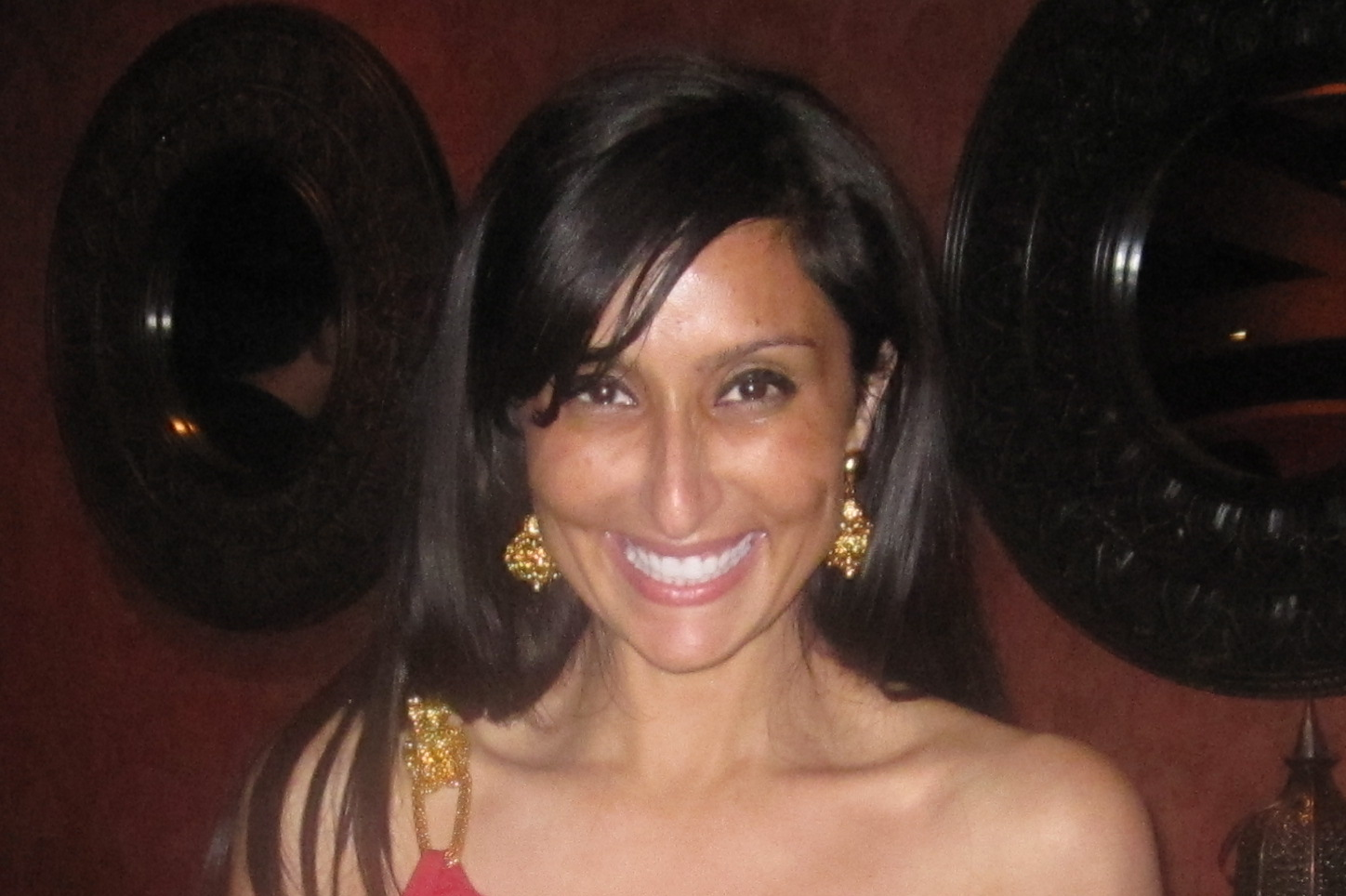 Shefali Razdan Duggal